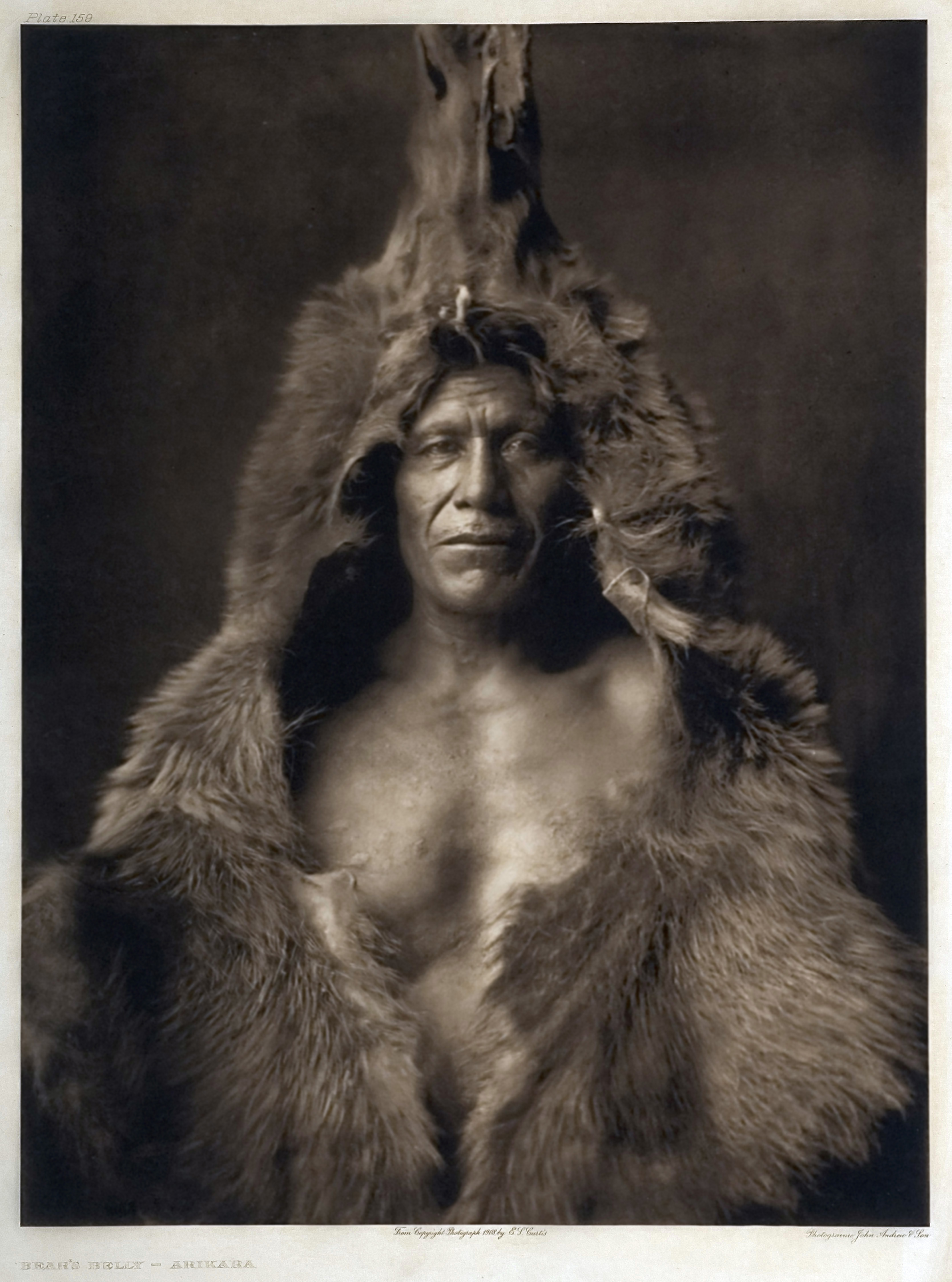 "A member of the medicine fraternity, wrapped in his sacred bear-skin" (Arikara people).